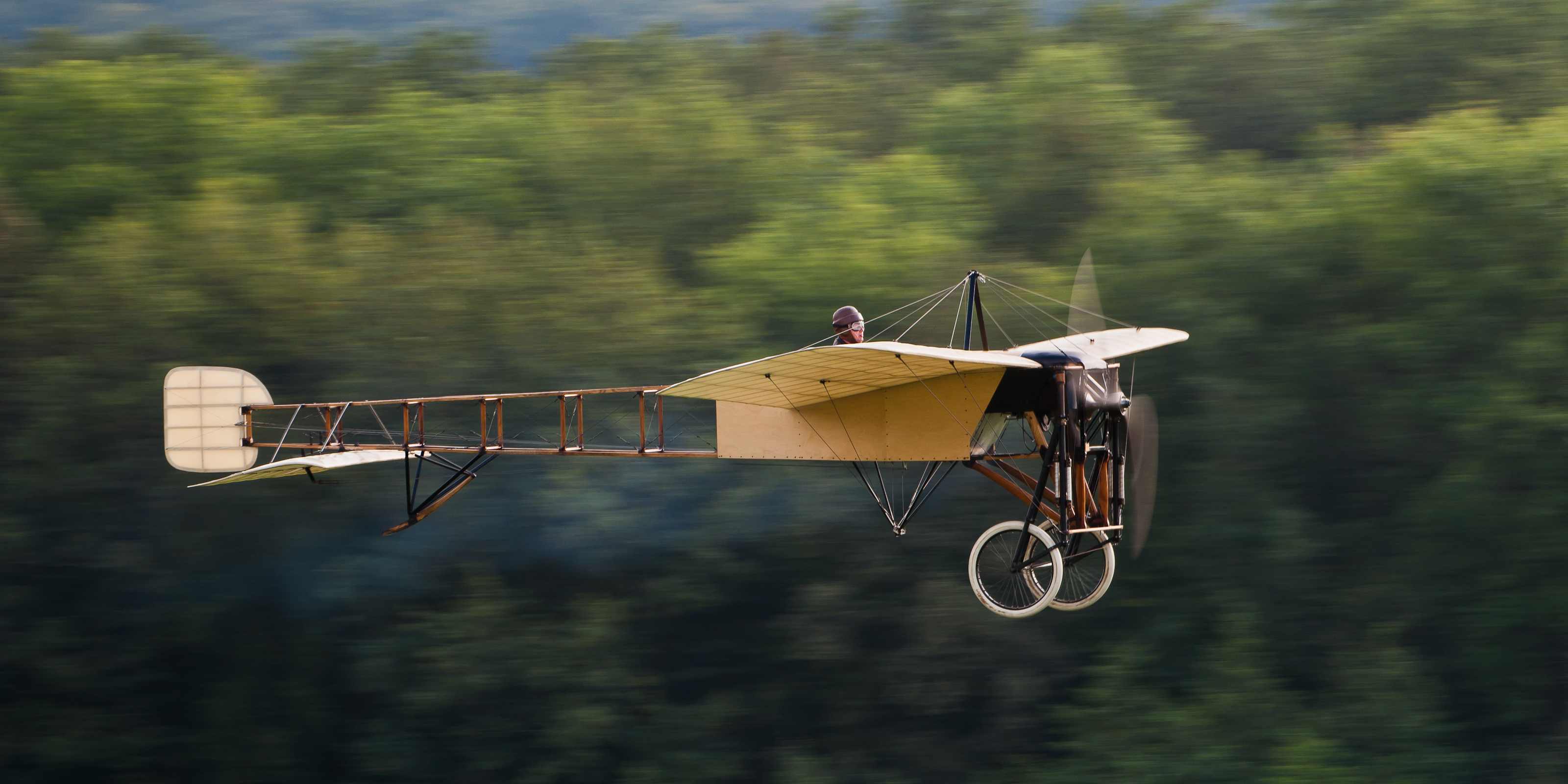 Mikael Carlson's Blériot XI/Thulin A 1910 (first takeoff after restoration: 1991, 7-cylinder Gnôme-Omega 50 hp rotary engine).